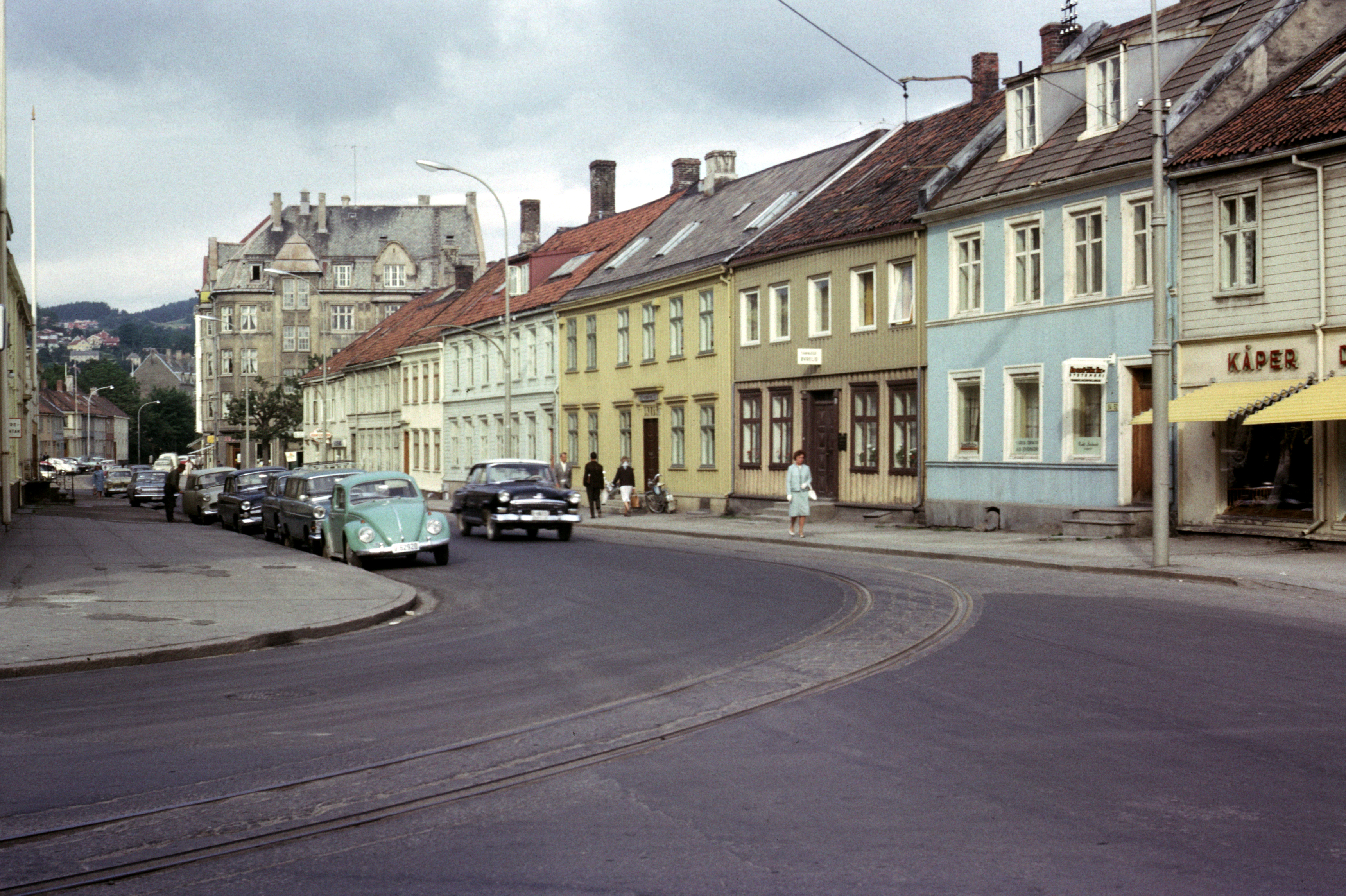 old Trondheim early morning